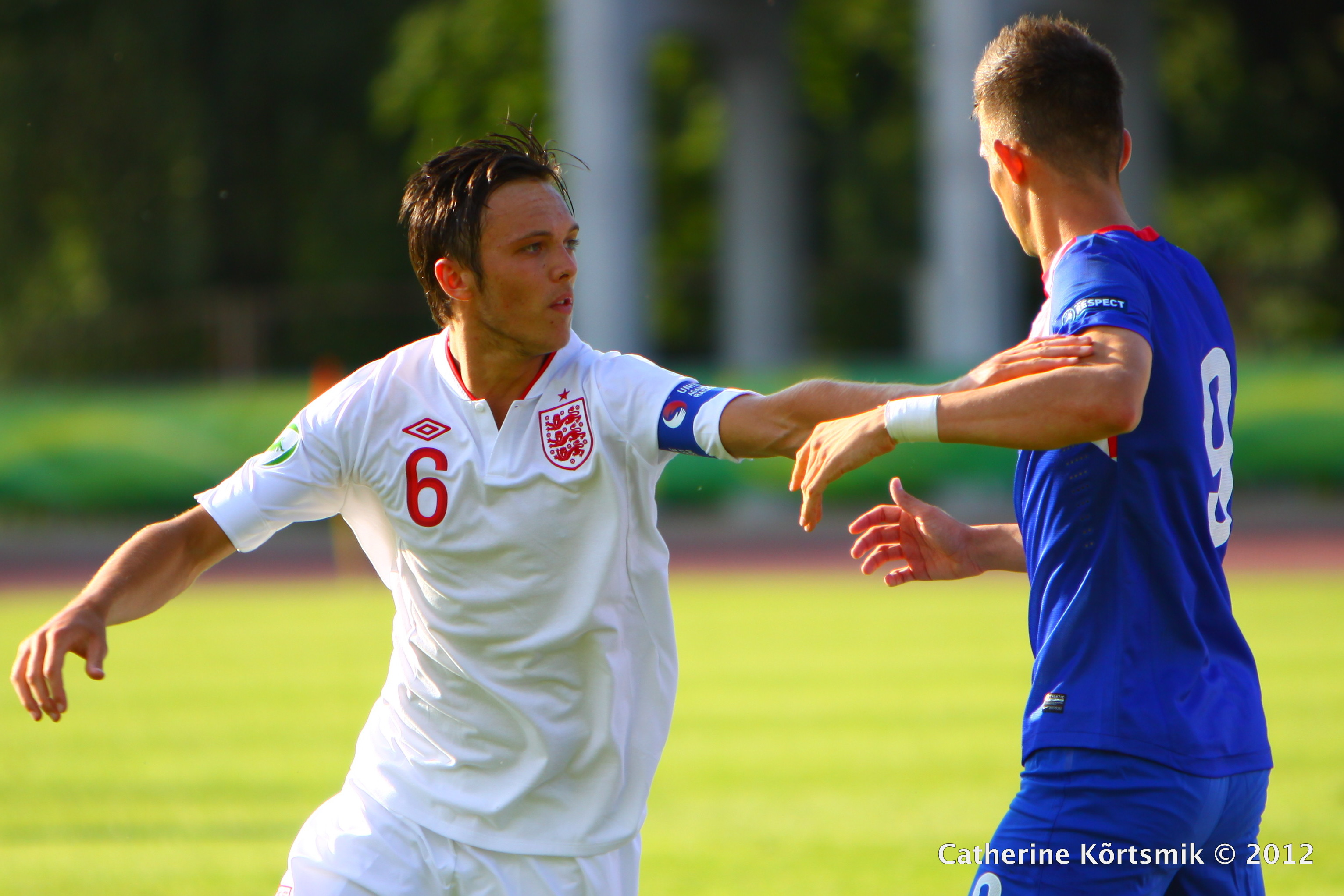 Tom Thorpe